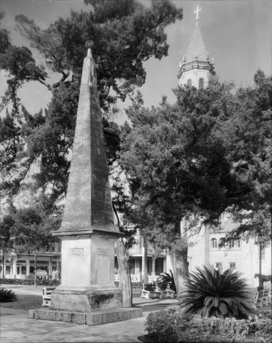 Last remaining original monument to the Spanish Constitution of 1812. St. Augustine, Florida